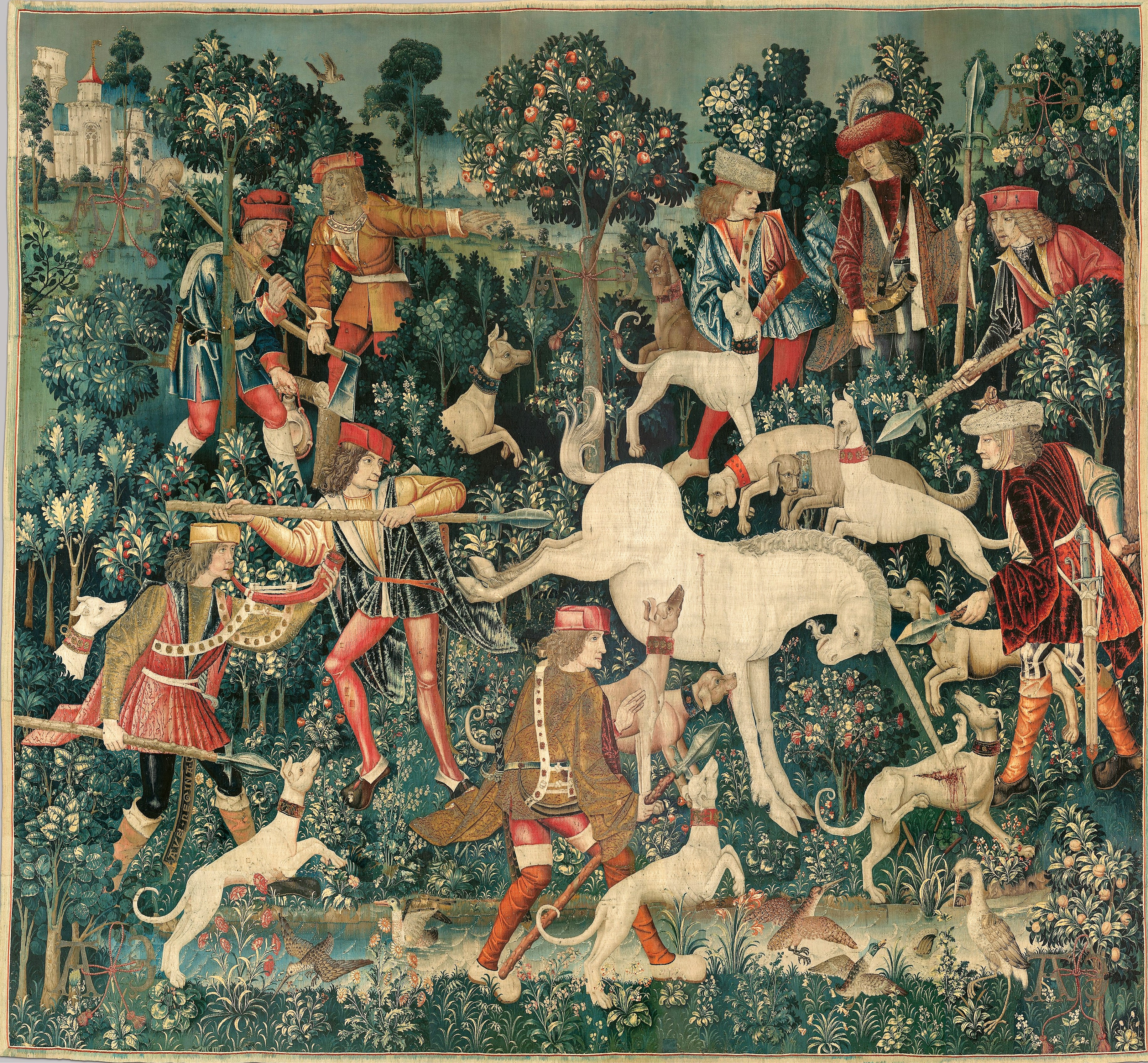 Here the injured unicorn is being held at bay by three hunters ready to pierce him with their lances. The furious animal reacts with a gruesome attack on a greyhound before him, almost tearing the dog's body apart. The horn-blowing hunter at the lower left wears a scabbard with the inscription AVE REGINA C[OELI] (Hail, Queen of the Heavens). The huntsmen and other figures are garbed in the fashions of about the turn of the sixteenth century, including round-toed shoes and fitted bodices, and their headdresses and hairstyles also reflect contemporary tastes. The mastery of the weavers is evident in the convincing representation of different materials and textures in the costumes, such as brocade, velvet, leather, and fur. In order to make the tapestries, plain wool yarns (the warp) were stretched between two beams of a large loom; a bobbin then brought dyed and metallic threads (the wefts) over and under the warp threads to create the design. Chemical analyses reveal that the dye pigments used in the Unicorn Tapestries came from such plants as weld (yellow), madder (red), and woad (blue), all of which are grown in the Bonnefont Cloister garden. With the aid of mordants, substances that help fix the dyes to fabric, these three primary colors were blended to achieve a dazzling spectrum of hues strategically highlighted by the addition of metallic threads.